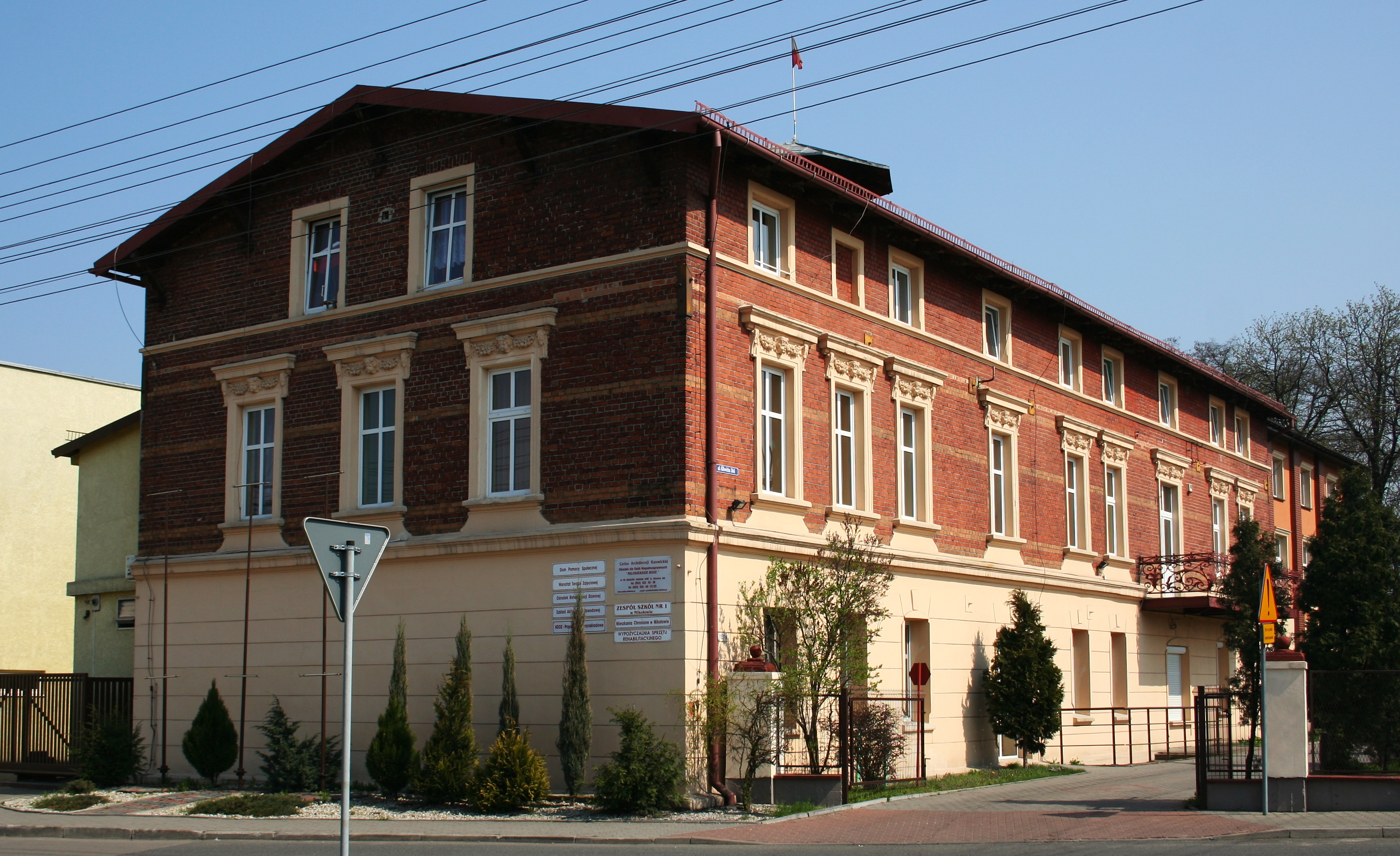 Caritas in Mikołów-Borowa Wieś, Poland